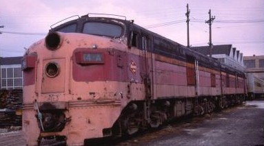 Old Maude -Milwaukee's DL-109 in 1958. H. Davison collection